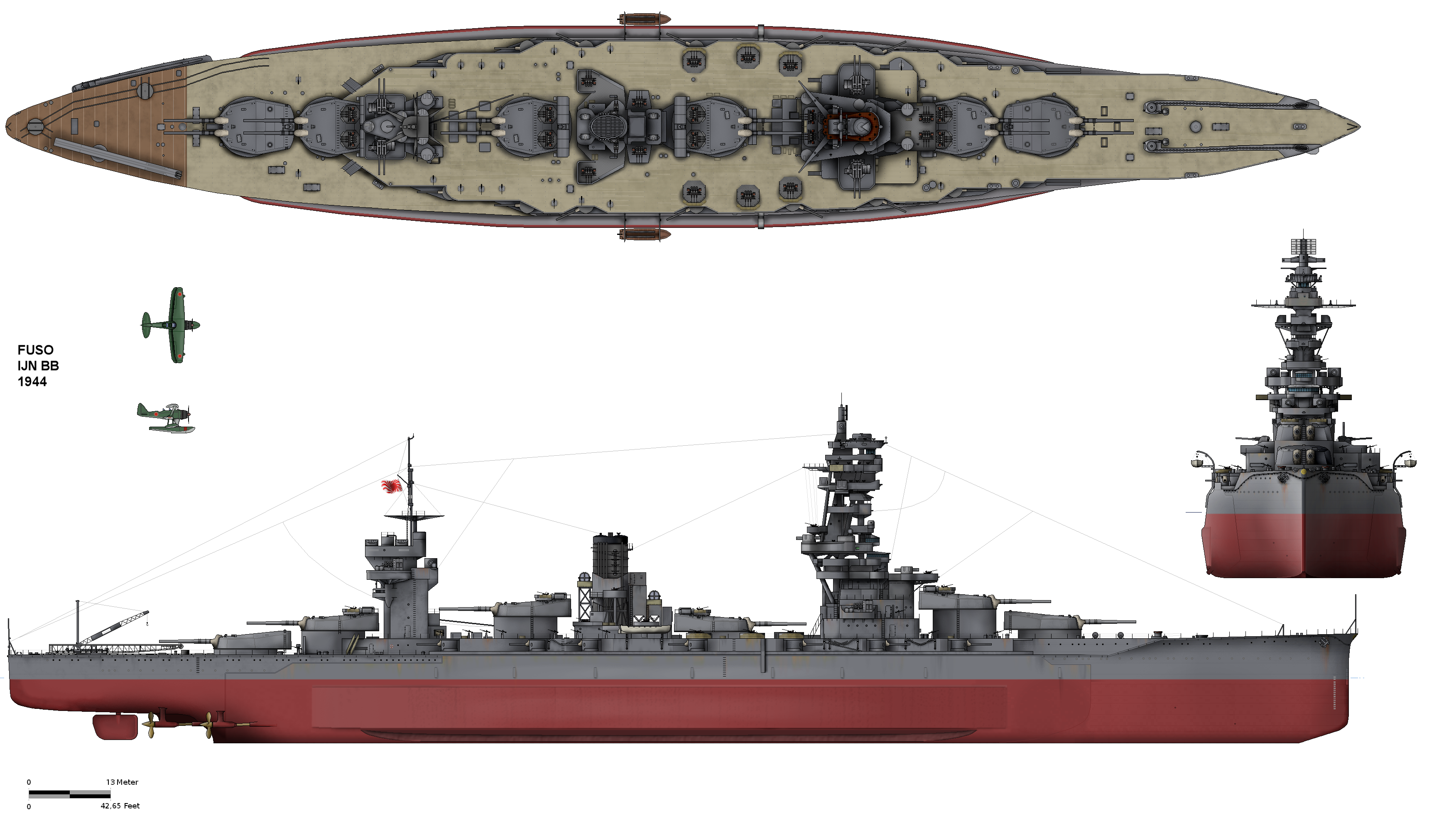 Drawing of battleship Fusō in her 10/1944 configuration.